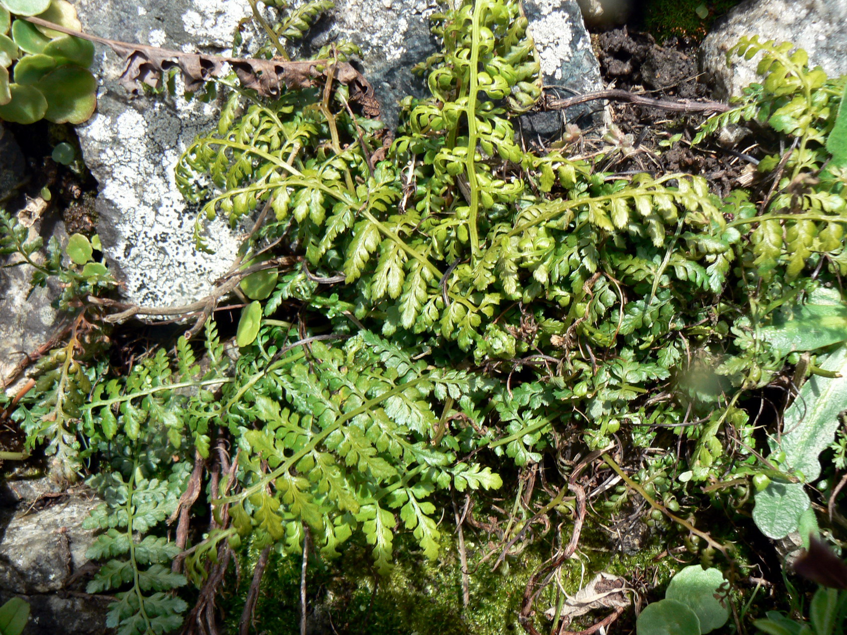 Asplenium billotii on granite drystone wall, Cap de la Hague, Manche, France